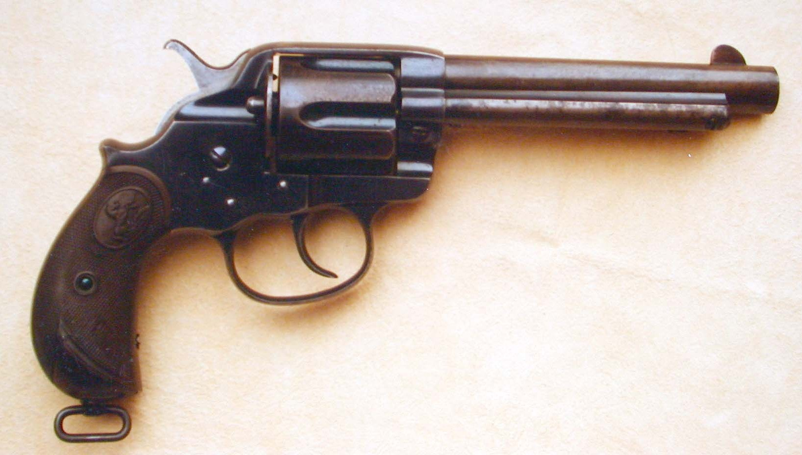 Colt Double Action Model 1878